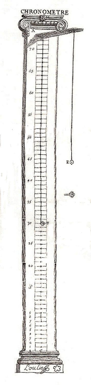 Chronomètre of Loulié: Engraving from Éléments by Étienne Loulié (published 1694); photographed, cropped, and adjusted by Patricia M. Ranum in 2009.